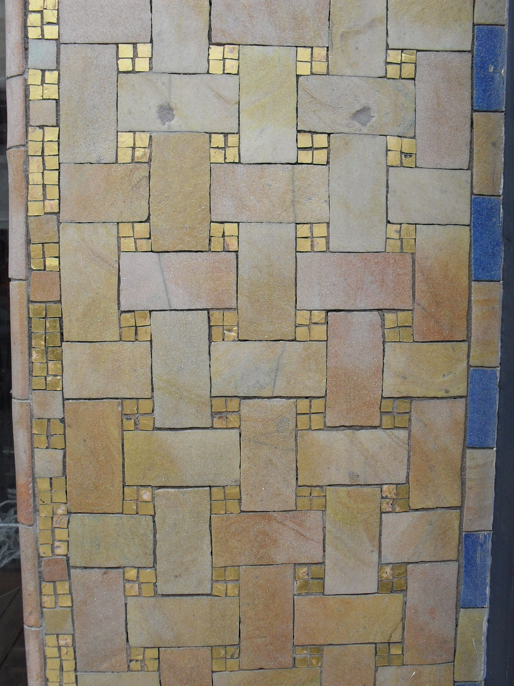 Freemasons Inn and Restaurant, 39 Western Road, Brunswick Town, Hove, City of Brighton and Hove, East Sussex: close-up of mosaic work on the exterior. The inn was built in about 1850; an elaborately decorated Art Deco-style restaurant was added in 1928. Listed at Grade II by English Heritage (IoE Code 365664)